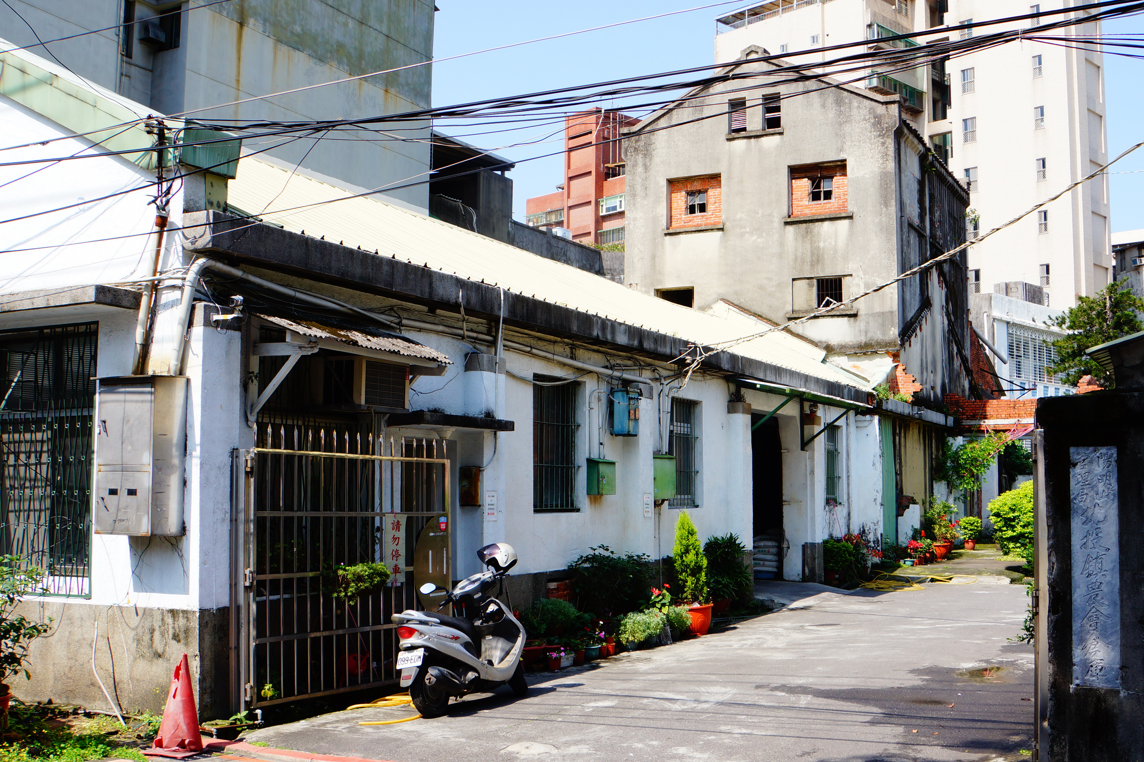 北投穀倉碾米機房 Rice Milling Room of Beitou Barn